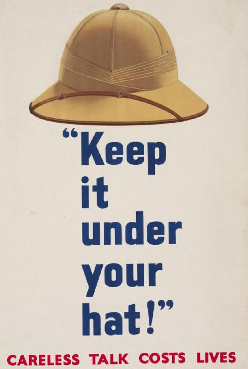 Keep it Under Your Hat! - Careless Talk Costs Lives [topi] whole: the image is positioned at the top with blue text in banner form placed below. Text in red is placed at the bottom. All is set against a plain white background. image: a khaki coloured pith helmet or solar topee military hat. text: "Keep it under your hat!" CARELESS TALK COSTS LIVES